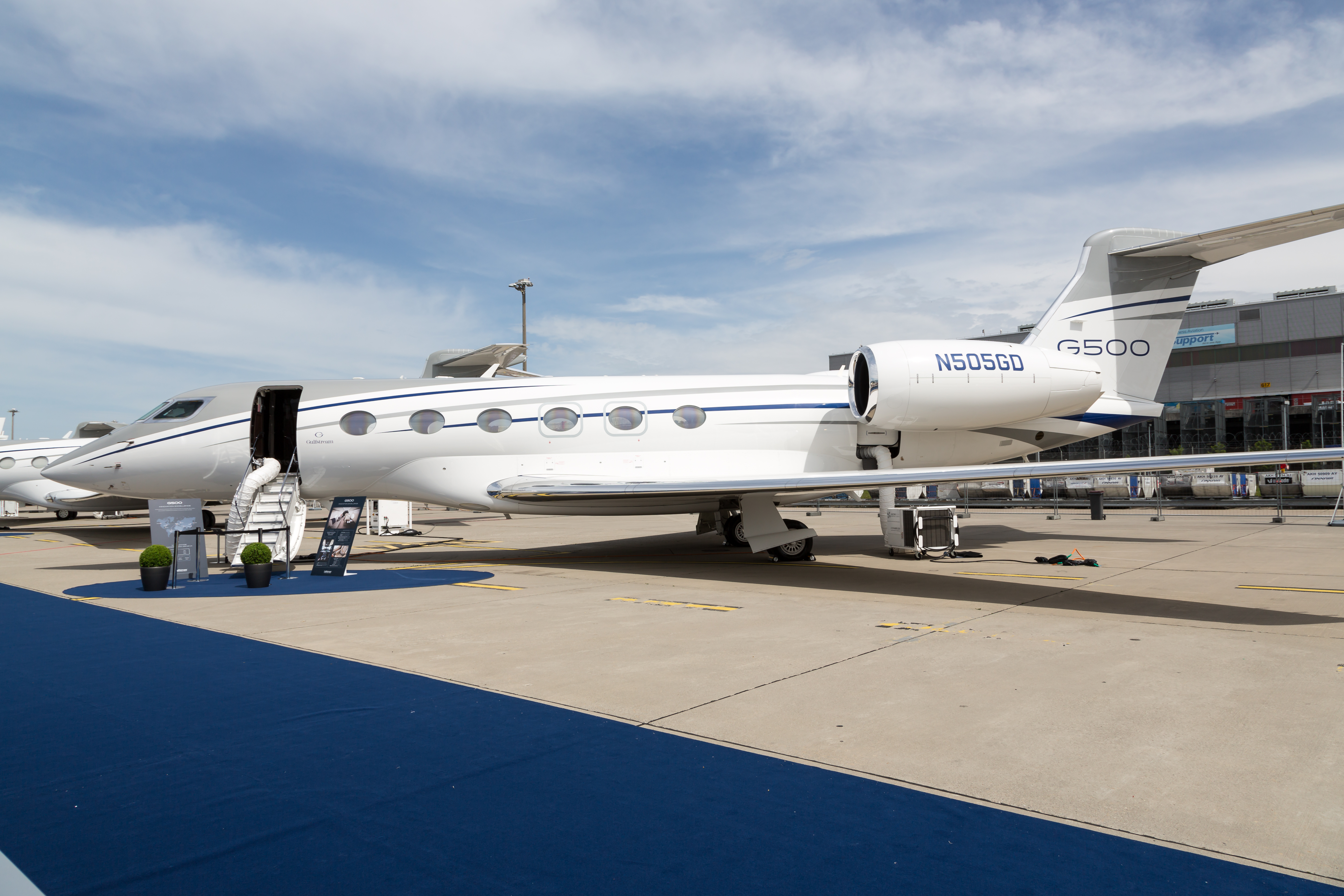 Gulfstream G500, static display preview, EBACE 2018